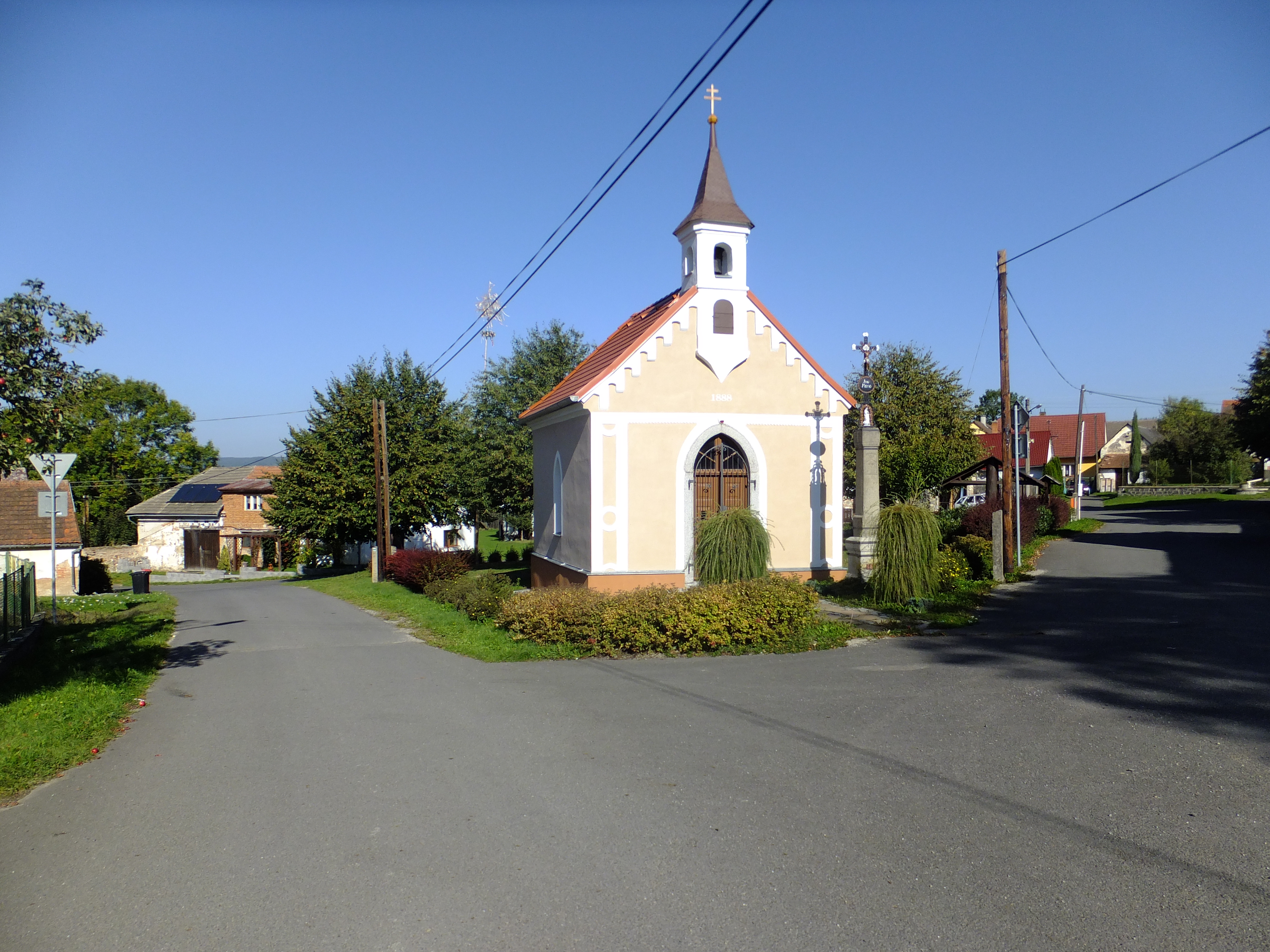 The chapel on the square in Záhrobí